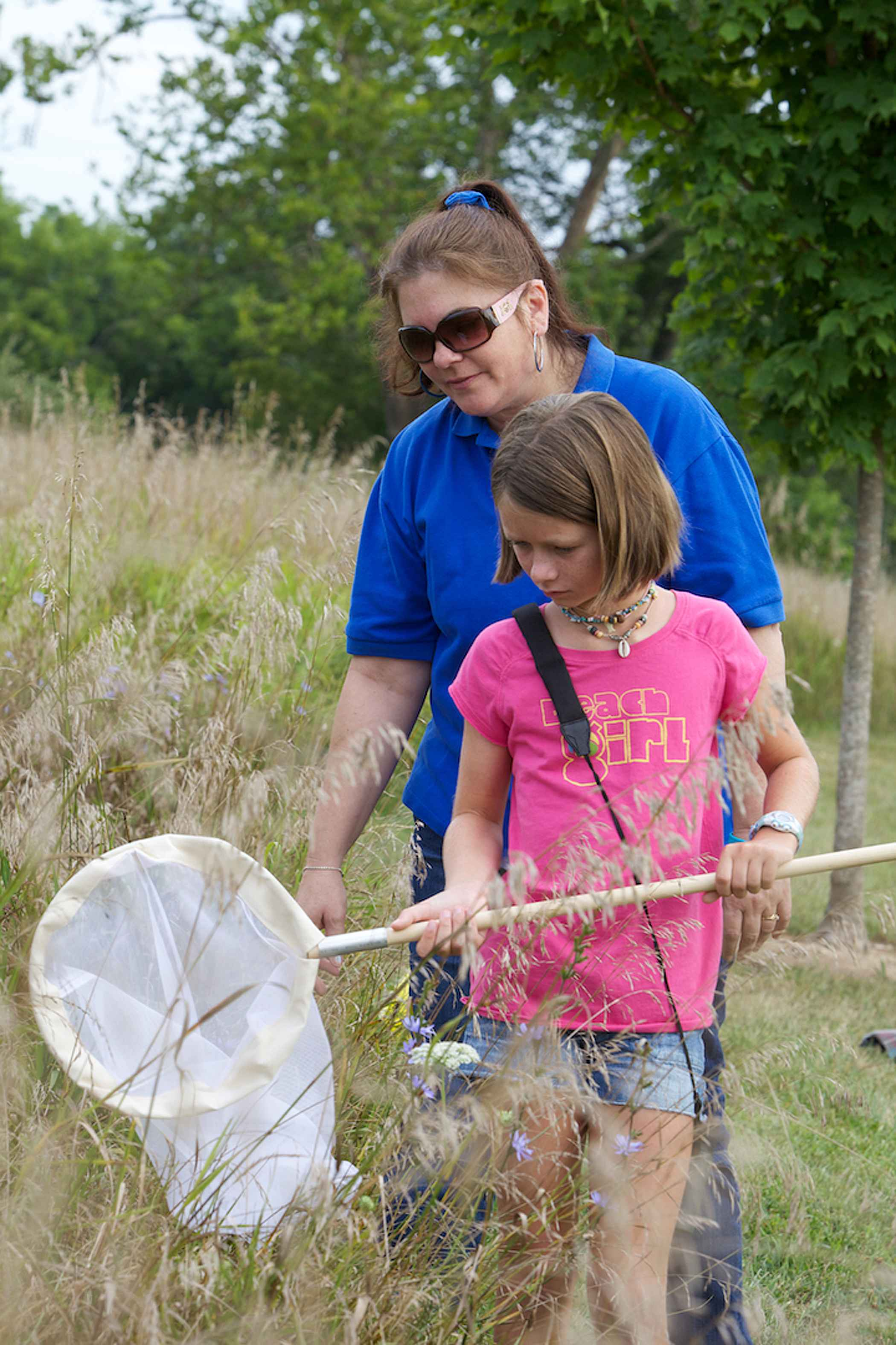 Image title: Young girl learns how to catch insects with a net Image from Public domain images website